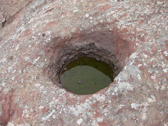 Saving water of rains in Lambsar fortress, Alamut, Iran